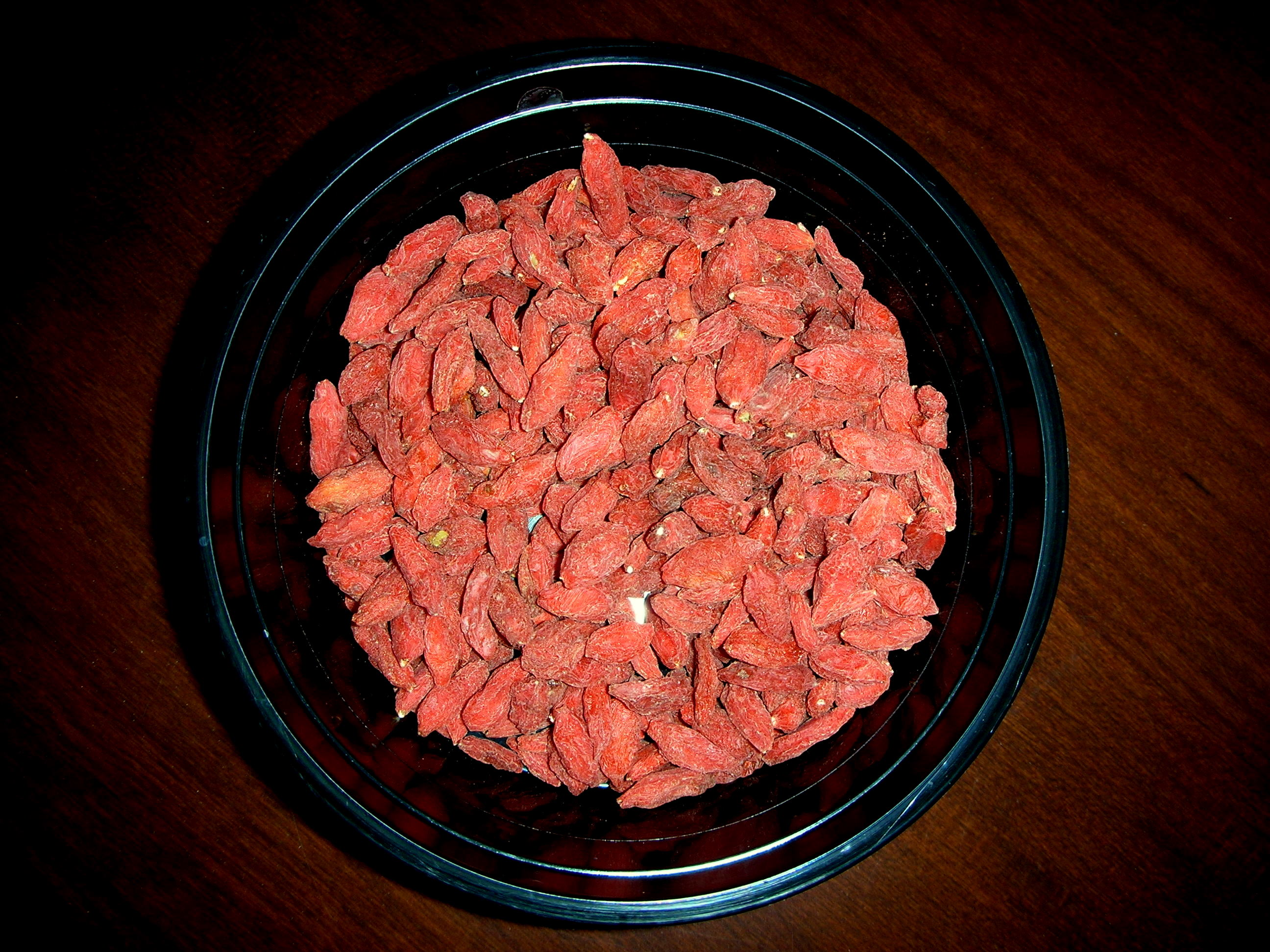 Goji berries